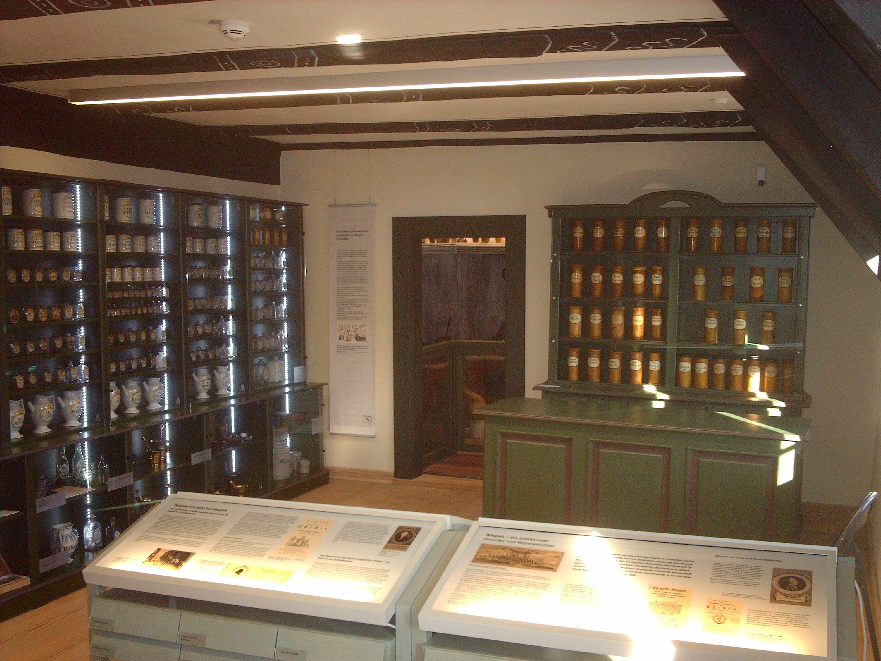 Apothekenmuseum Haus Rosenthal, Bad Langensalza 4